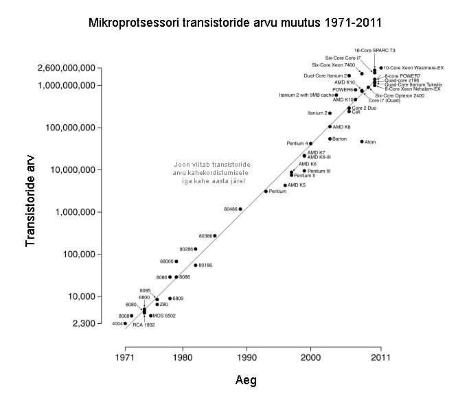 Edited the original file to have text in Estonian language.